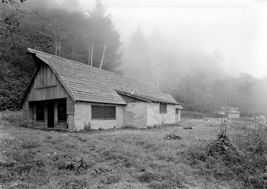 National Register of Historic Places in California Radar Station B-71, Operations Building, Coastal Drive, Klamath vicinity, Del Norte County, CA; Building/structure dates: 1942 initial construction